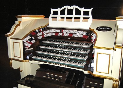 The restored pipe organ console. Photo taken by me (Jazzboy), real name Peter Hammond, Senior Partner of HWS Associates LLP who restored the organ. Please credit HWS Associates if you wish to reuse the picture.